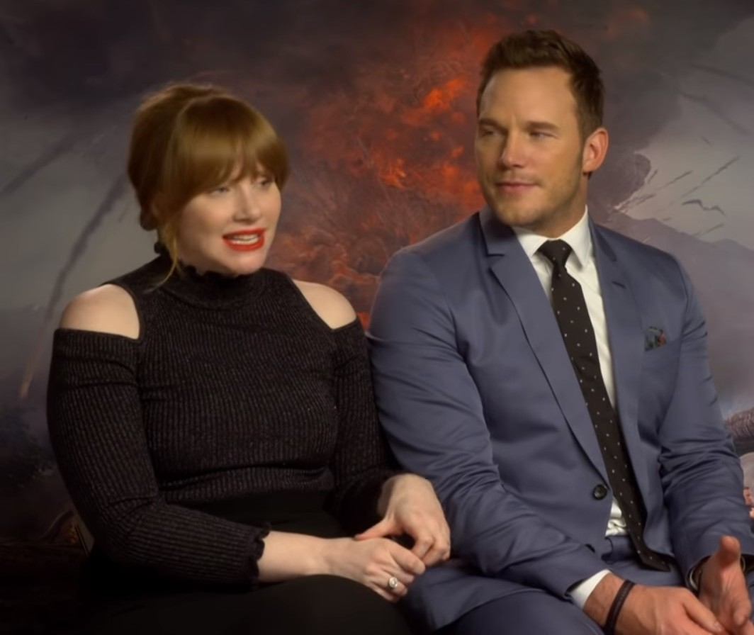 Chris Pratt, Bryce Dallas Howard, Jeff Goldblum, director J.A. Bayona, and writer Colin Trevorrow reveal the moments that made them LOL behind the scenes, and what it was really like to film the movie’s most surprising scenes.